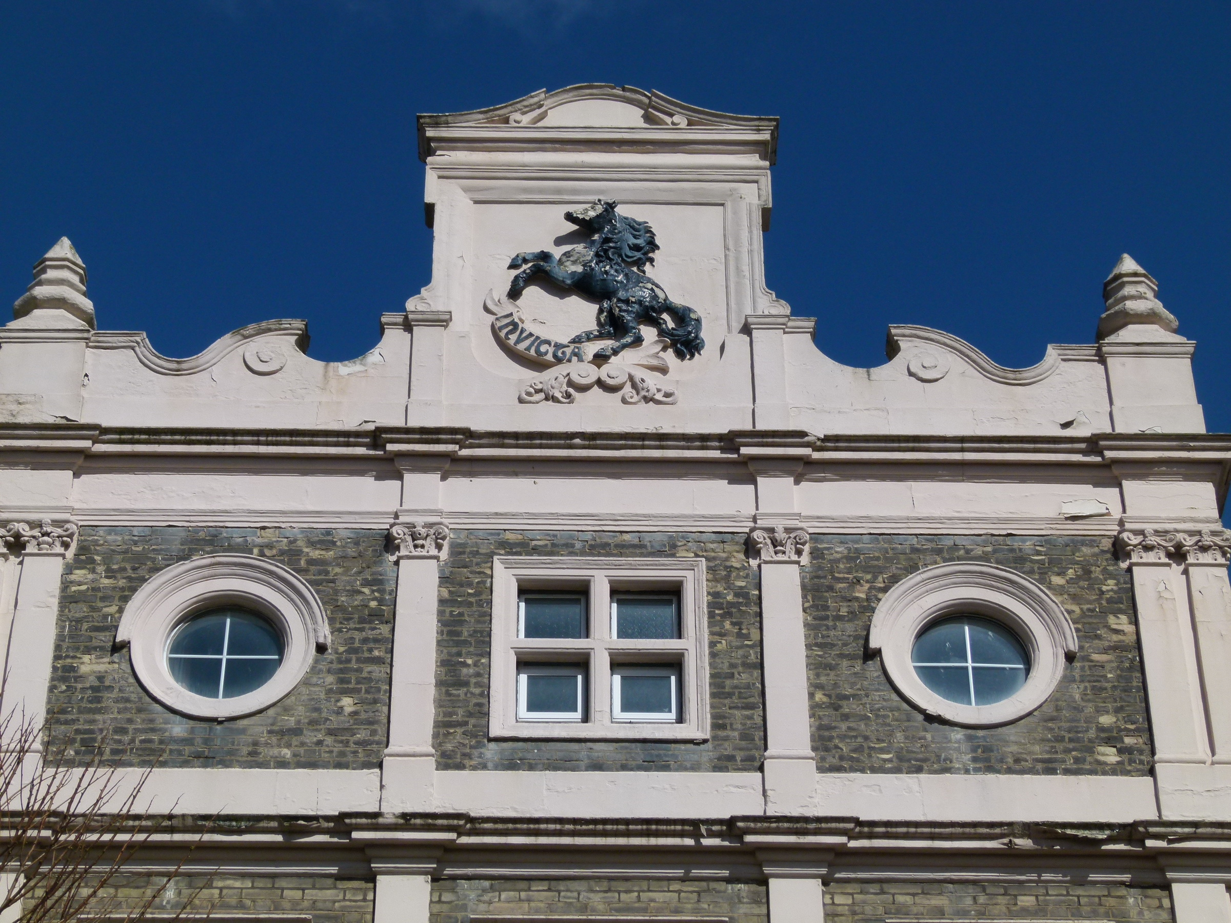 Detail of Kent House with the Kent Invicta horse atop, Powis Street no 78, Woolwich, South East London, UK.